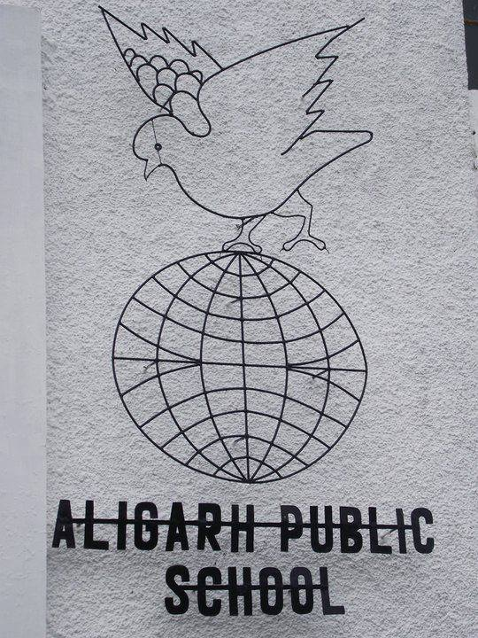 School Name written on its wall